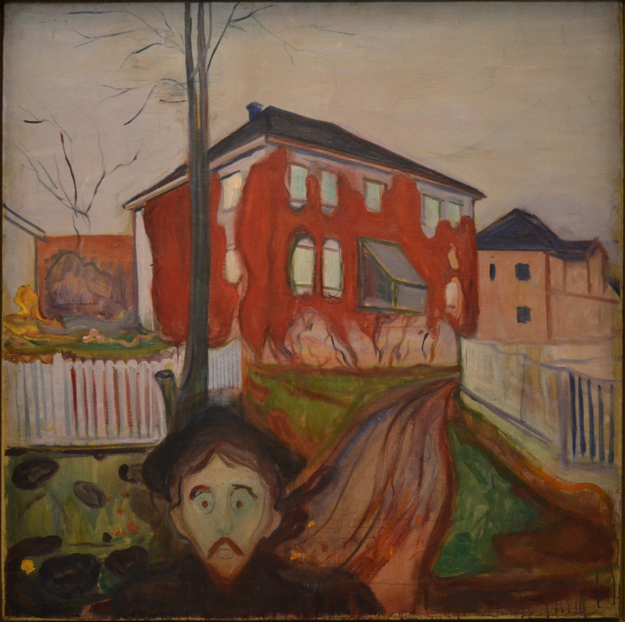 Edvard Munch, Red Virginia Creeper, 1898-1900. Oil on canvas. Munch-museet, Oslo.